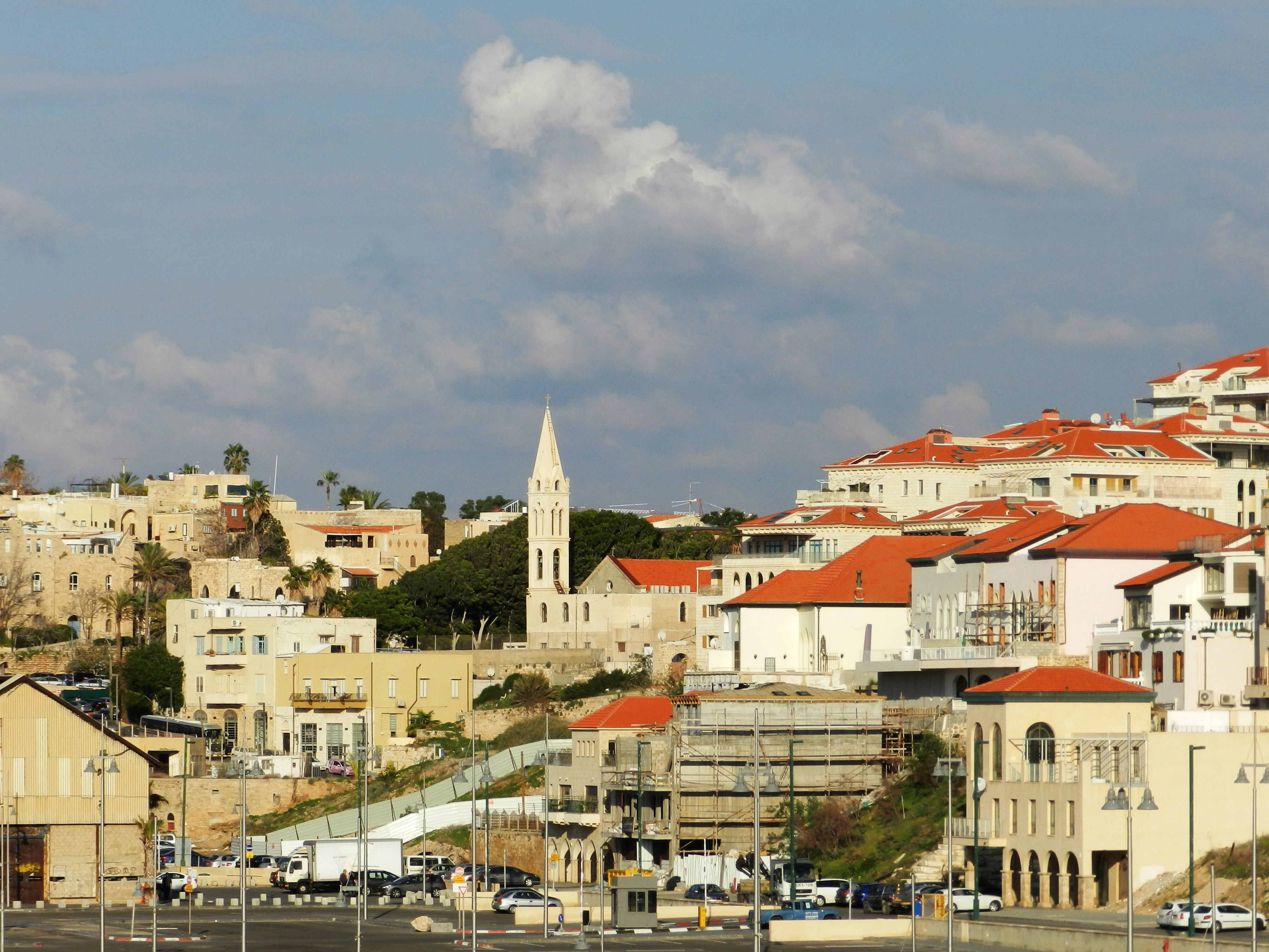 A view of Jaffa from the Sea side garden